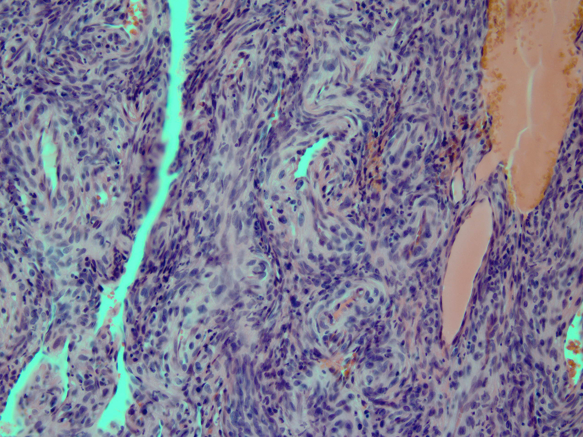 Histopathology of Myopericytoma. H&E staining. Magnification 200x